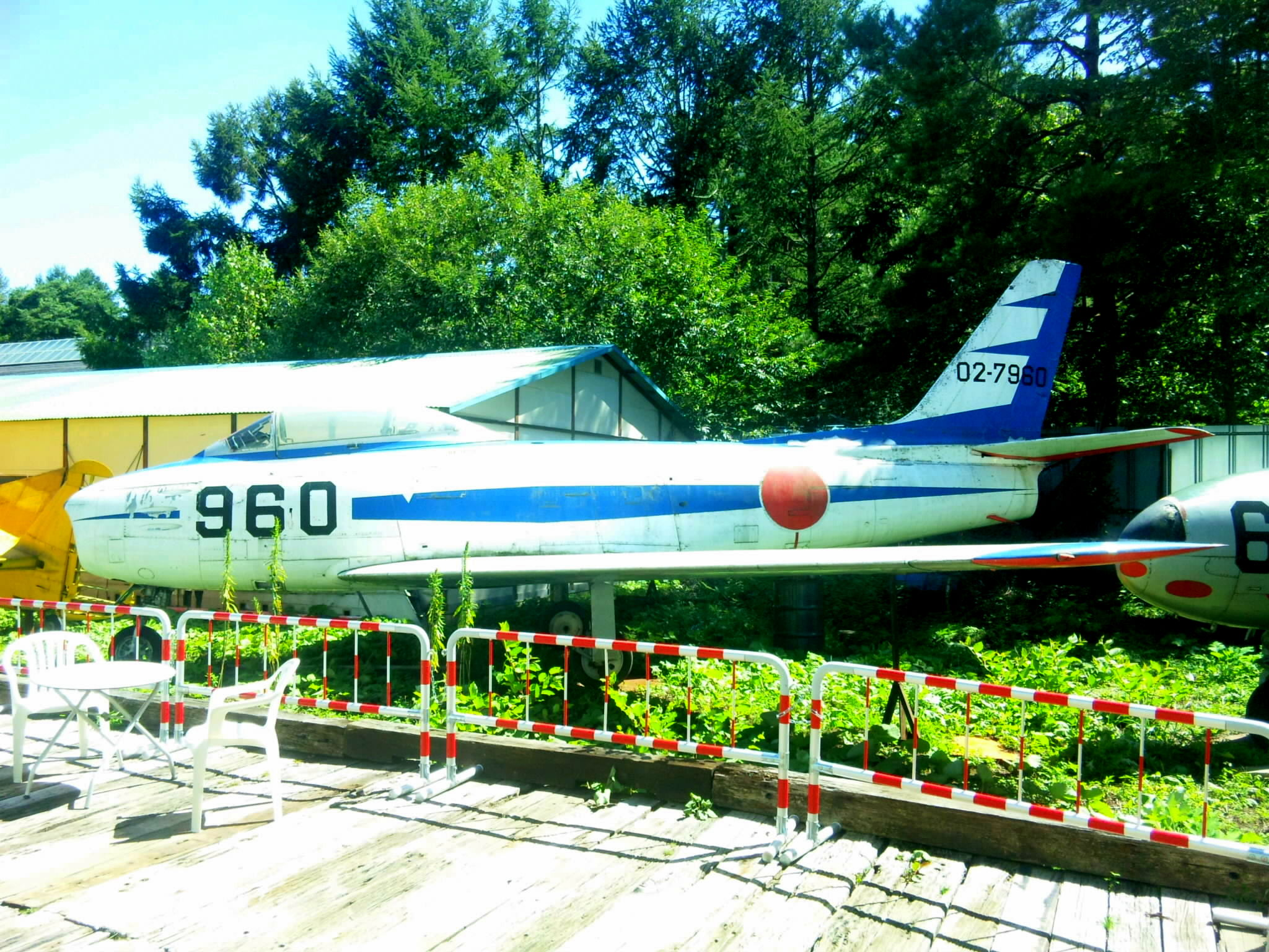 North American F-86F Sabre (02-7962) at Kawaguchiko Motor Museum, Yamanashi prefecture, Japan. It has been repainted as 02-7960 of the Blue Impulse acrobatic team. The real 02-7960 is on display at Hamamatsu Air Base in Shizuoka prefecture